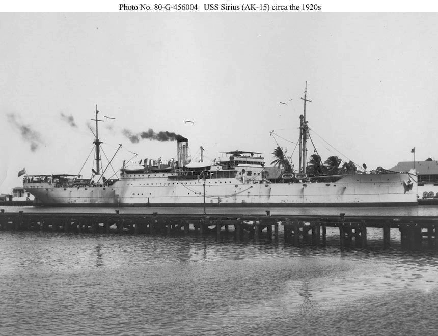 USS Sirius (AK-15), between the World War years, moored pierside, date and location unknown. US Navy photo from DANFS